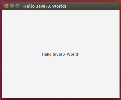 Screenshot of the output of a hello world program in JavaFX.